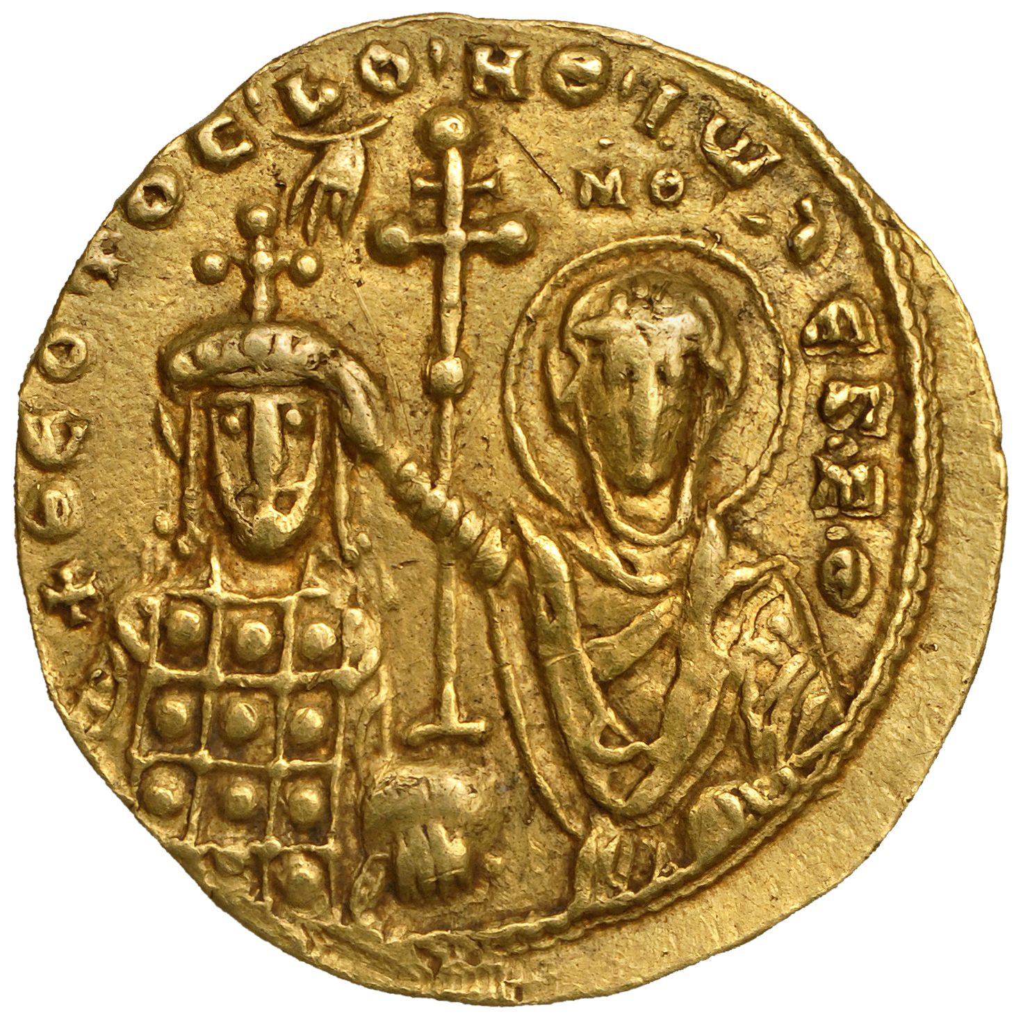 Histamenon of John I Tzimiskes